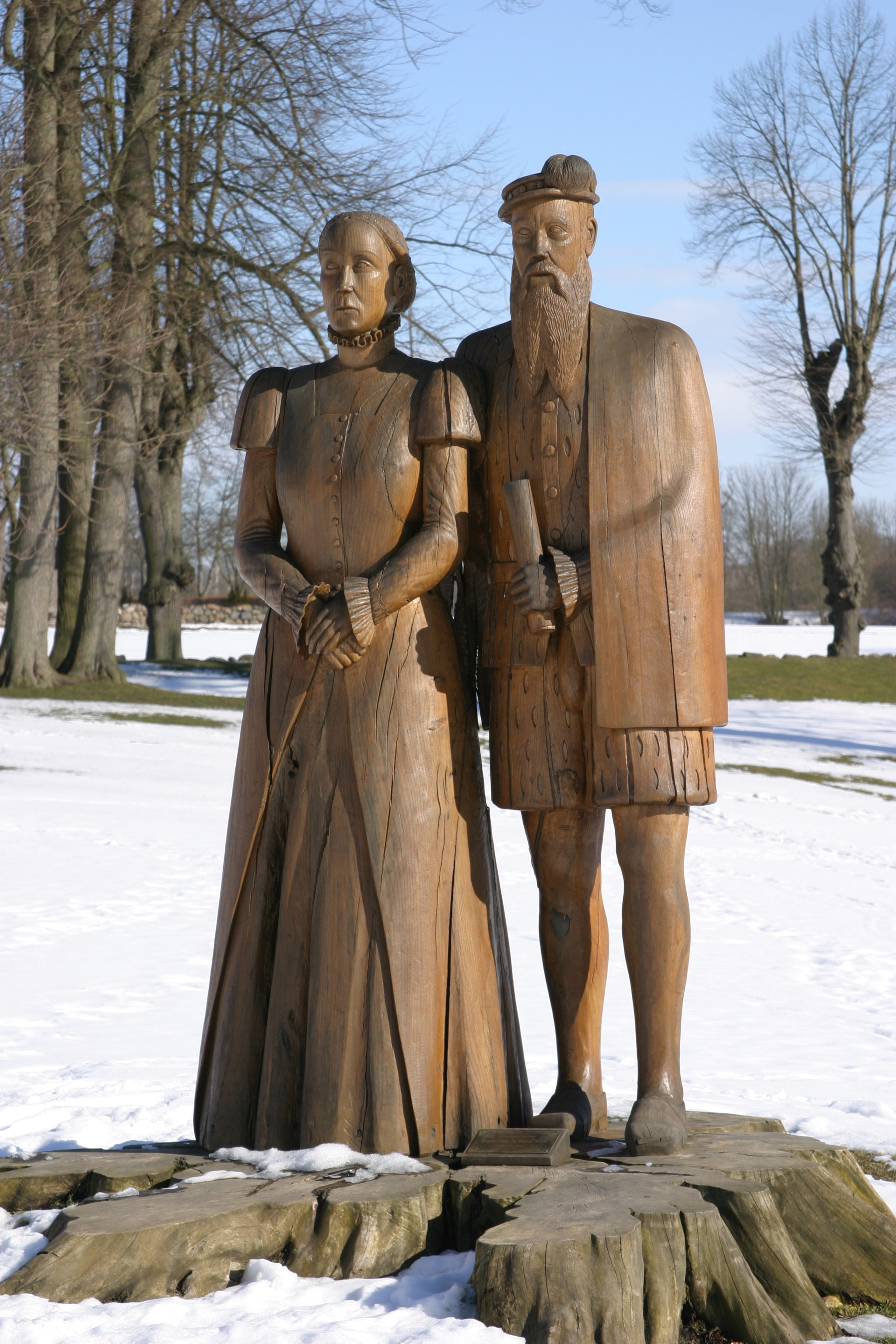 Statue of Herluf Trolle and Birgitte Gøye carved in wood. Photo was taken near Herlufsholm, the boarding school they founded.